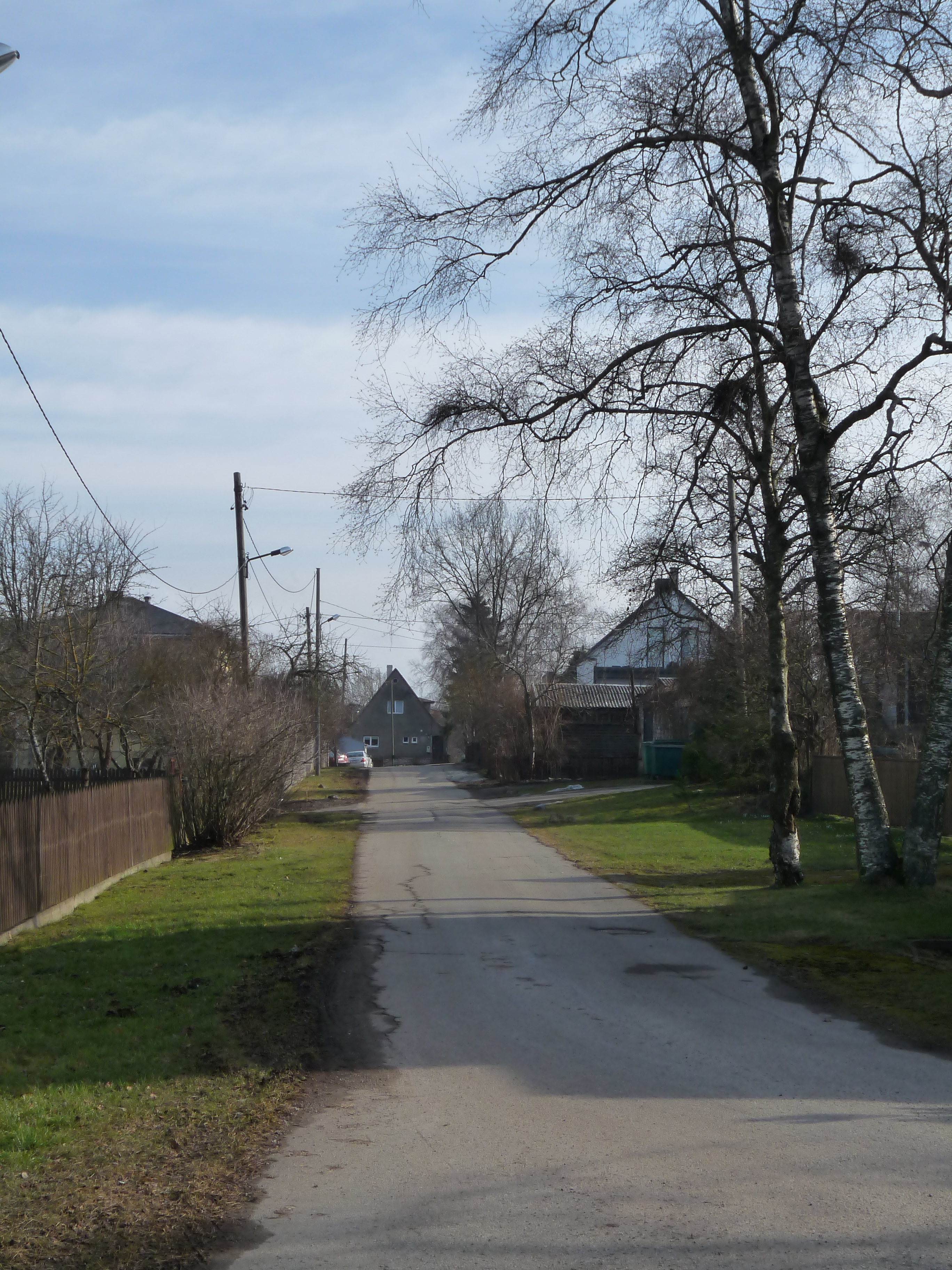 Mesika side road in Tallinn, Estonia